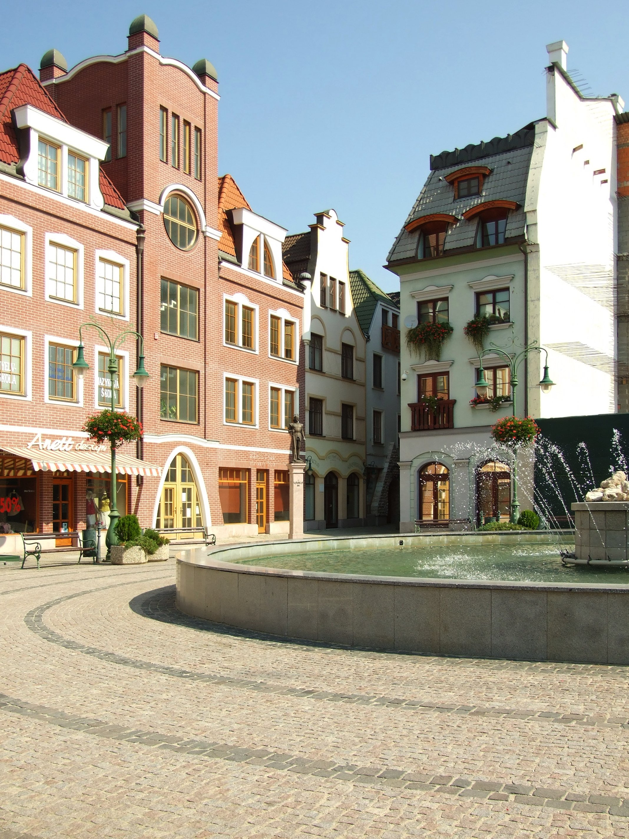 Komárno, Europe place with typical buildings of all european countries, SKhelp